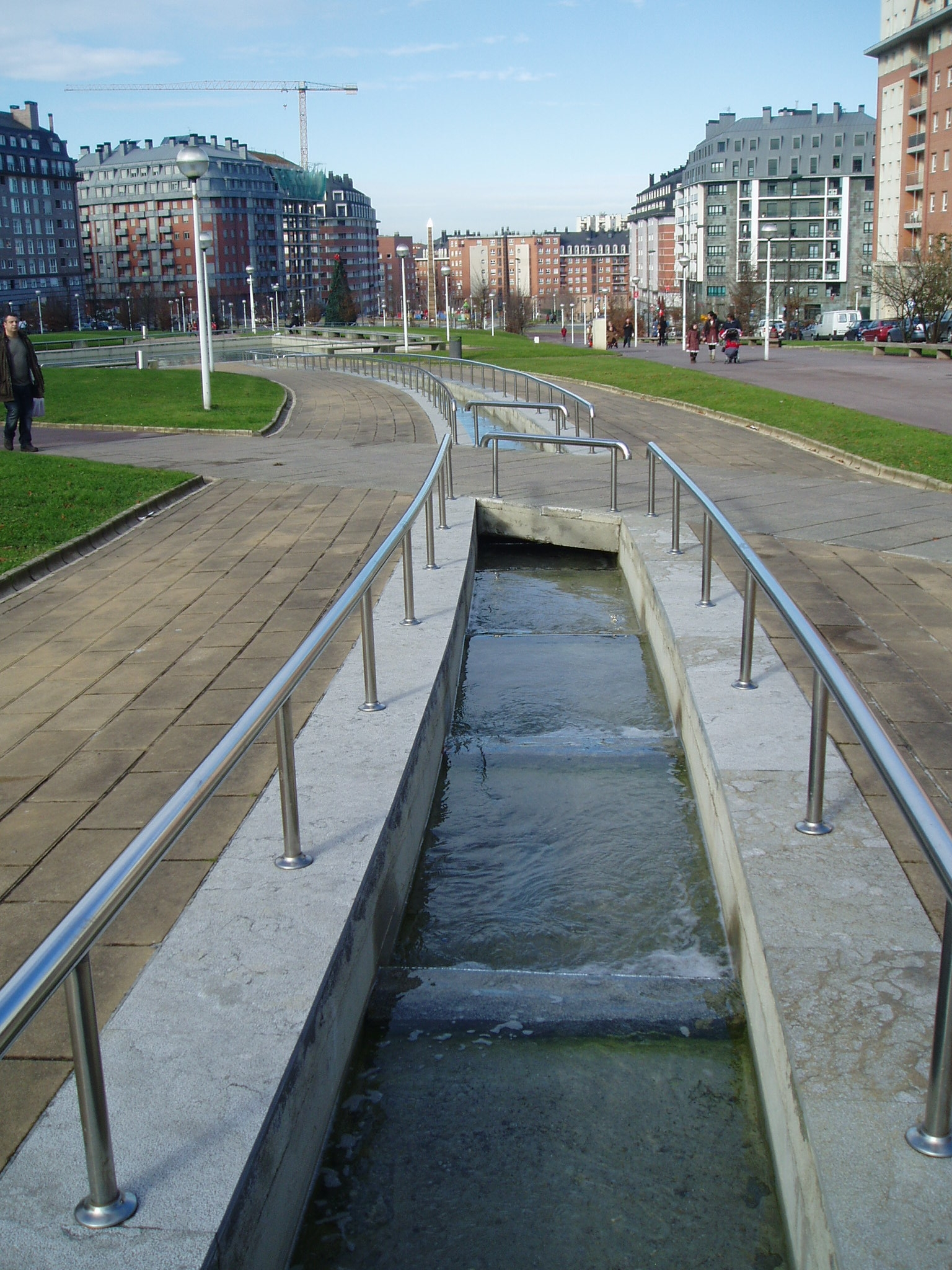 Gernika gardens. Miribilla (Bilbao).